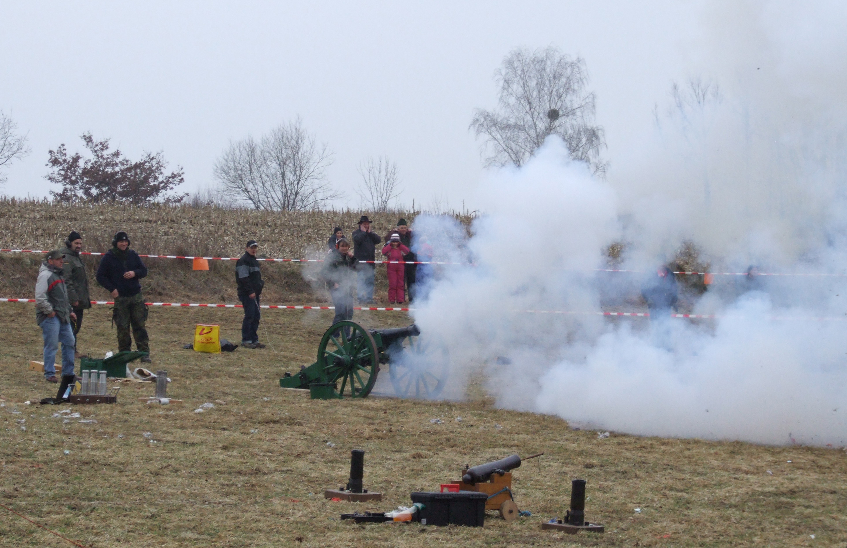 salute gun shooting